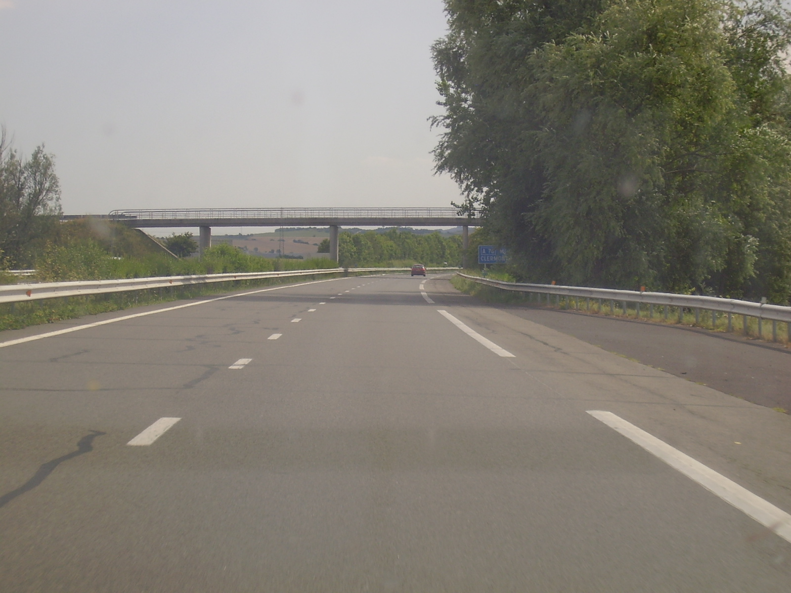 A711 autoroute towards Clermont-Ferrand, near kilometer 9 S or 10 S